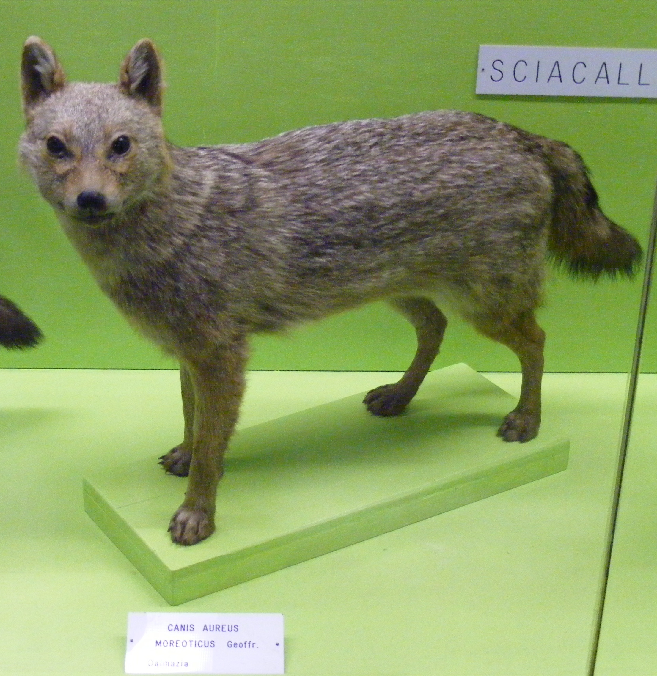 A European Jackal (Canis aureus moreoticus) in the Natural History Museum of Genoa